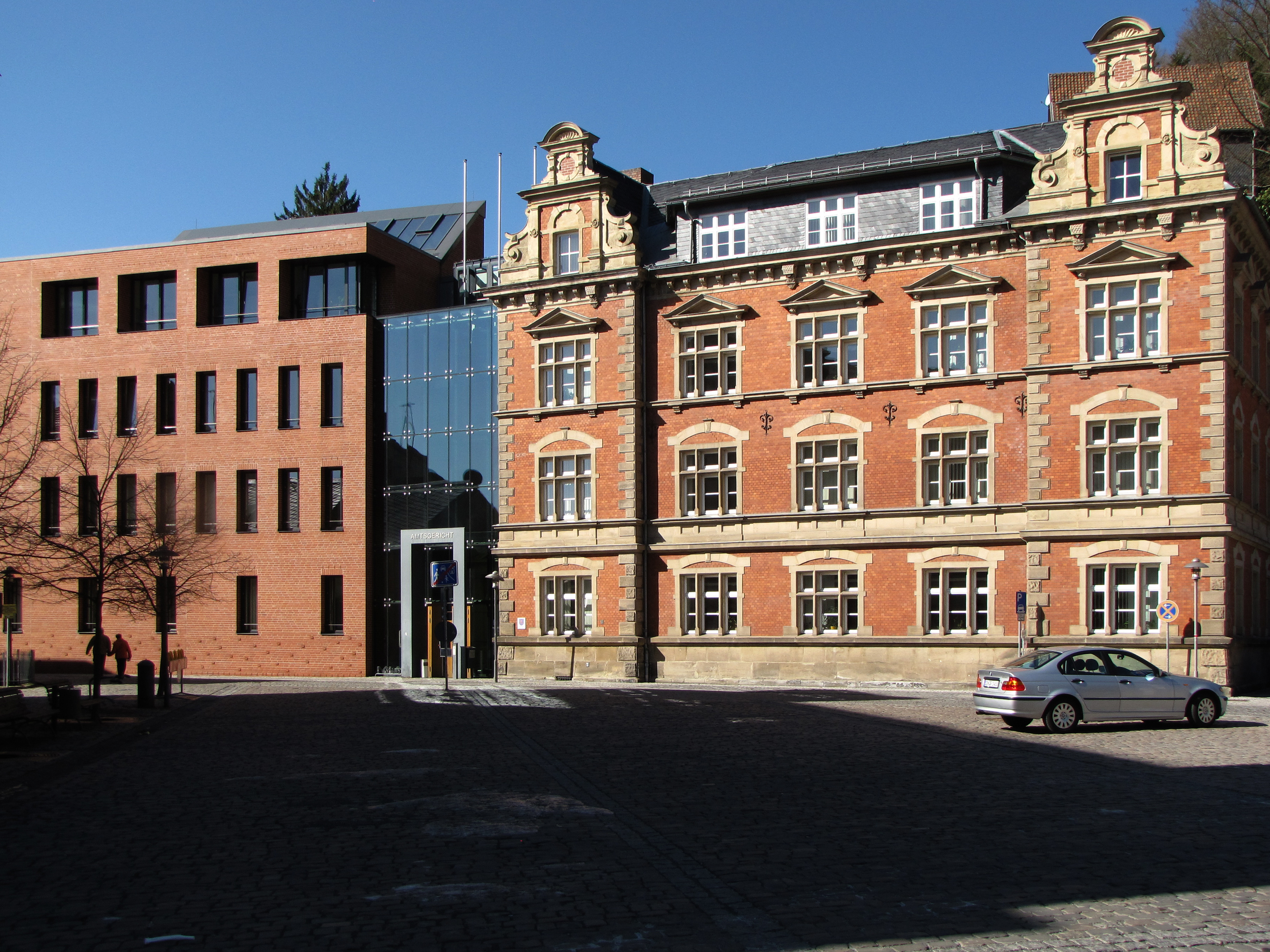 Amtsgericht Sonneberg